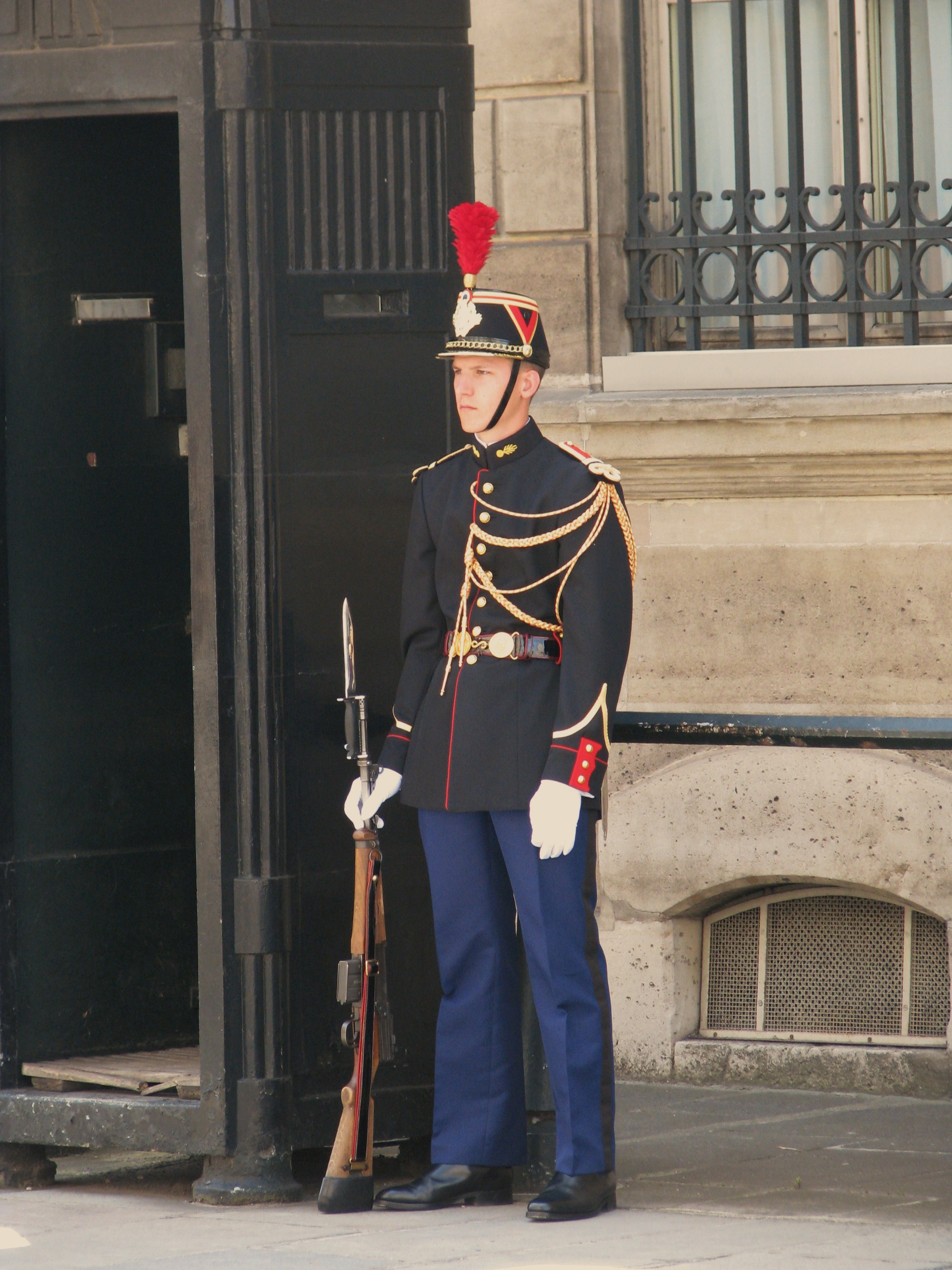 Member of the Republican Guard Infantry at the main entrance to the Élysée Palace